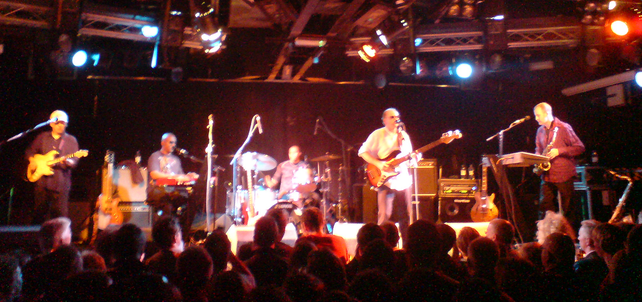 Photo of The Average White Band playing at The Liquid Room in Edinburgh on 20th May 2008.